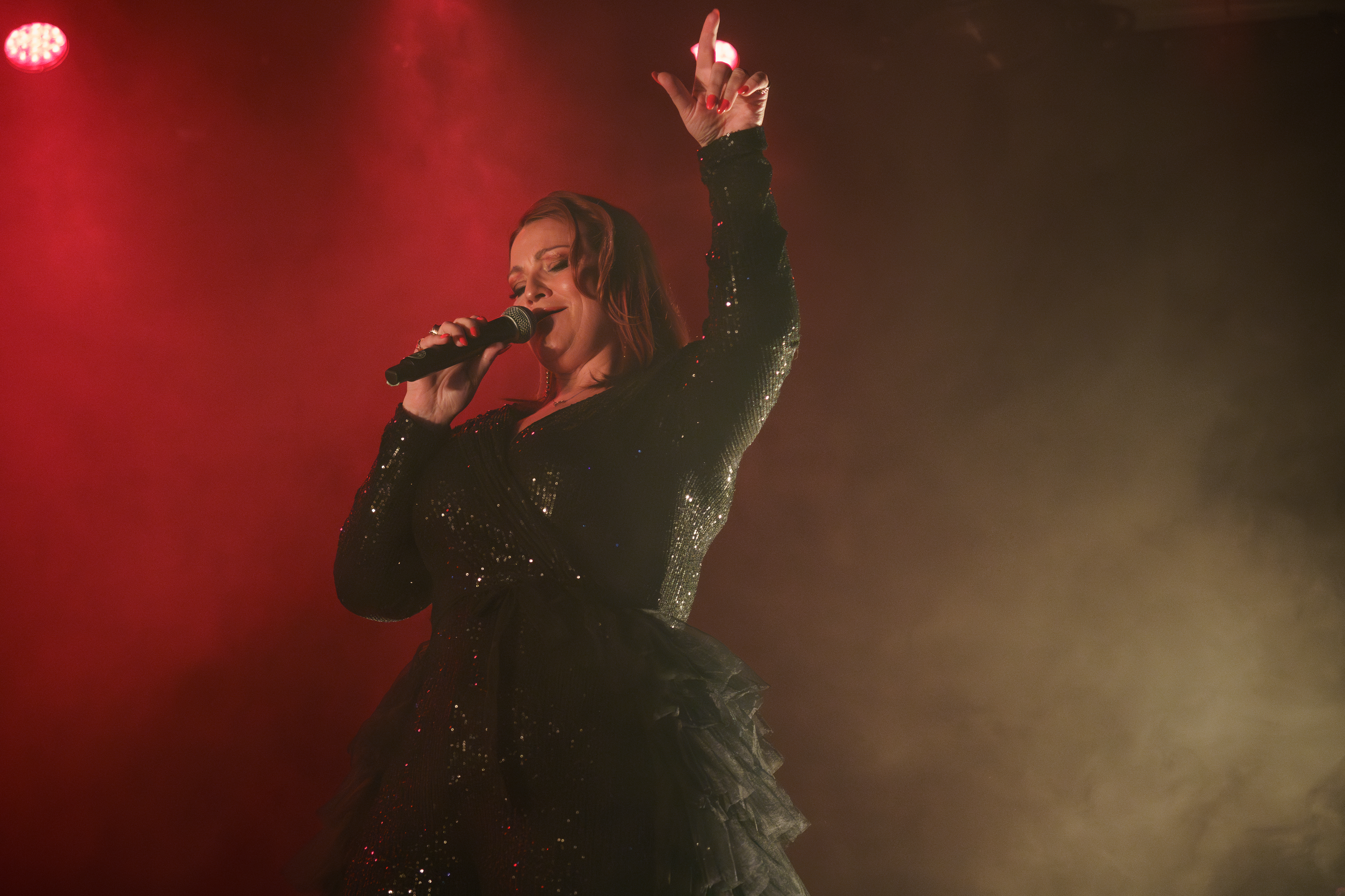 Hera Björk, Iceland's artists at the ESC 2010, Telenor Arena, Norway.